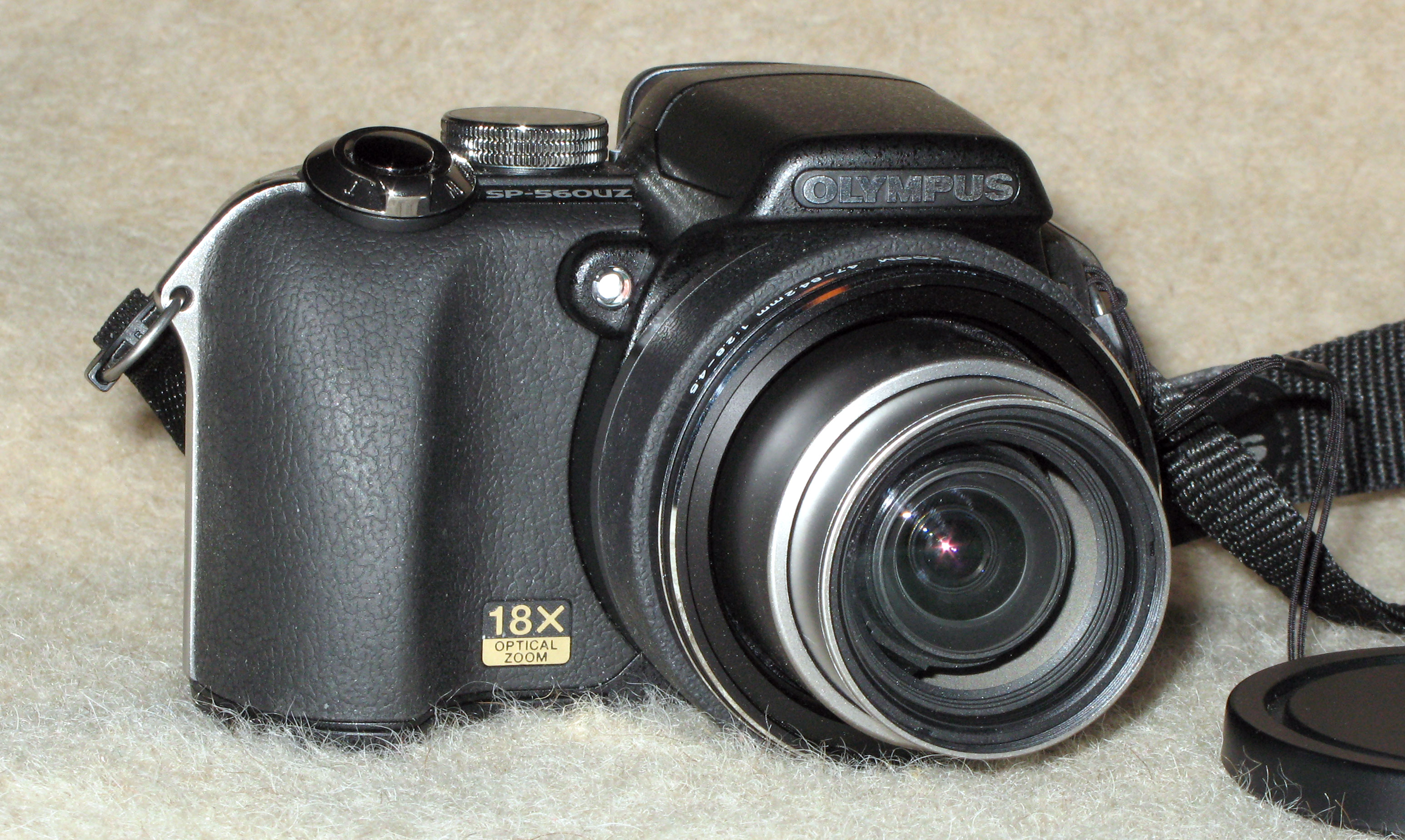 Olympus SP-560UZ